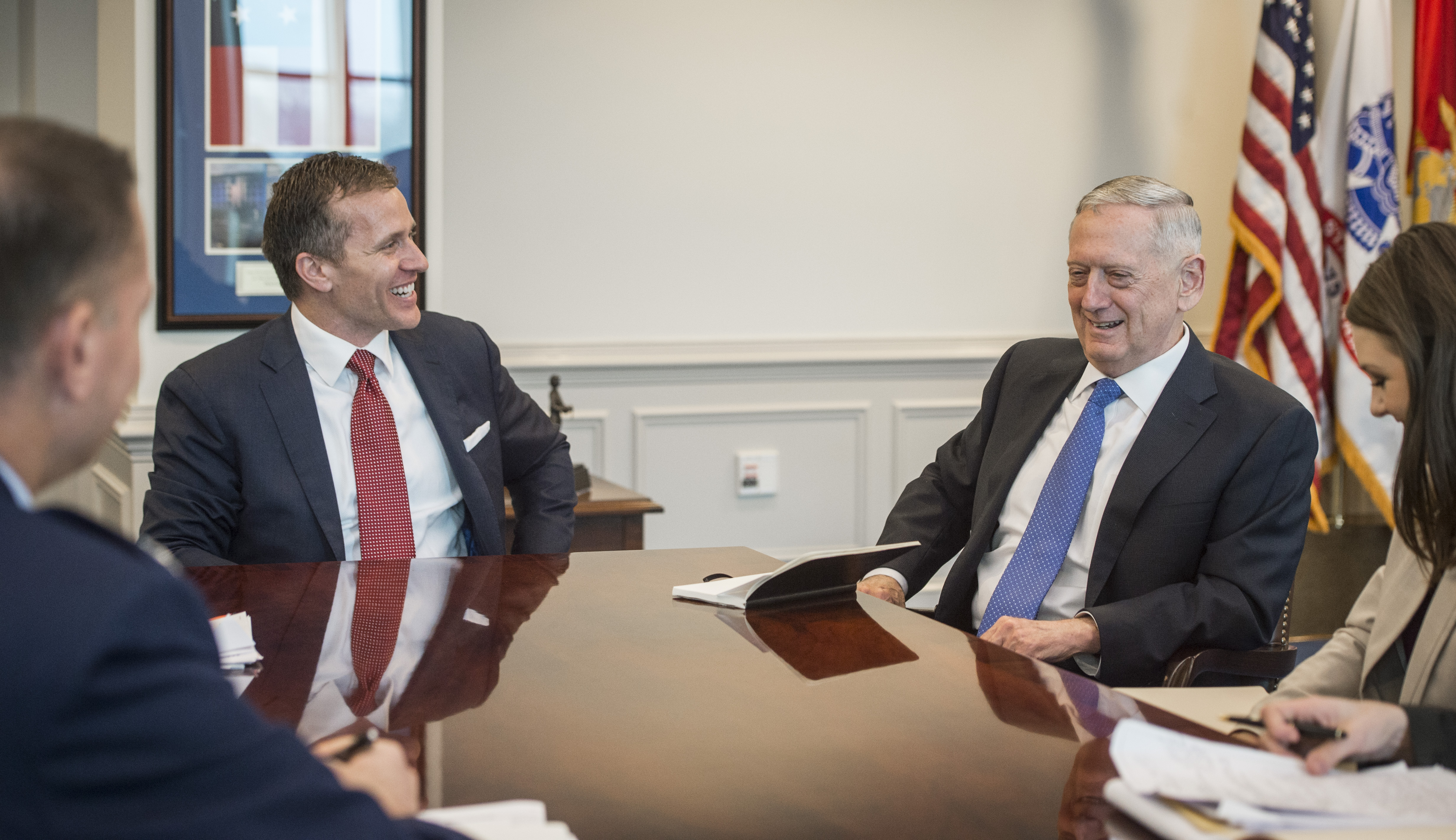 Secretary of Defense Jim Mattis meets with Missouri Gov. Eric Greitens at the Pentagon in Washington, D.C., March 27, 2017. (DOD photo by Air Force Tech. Sgt. Brigitte N. Brantley)